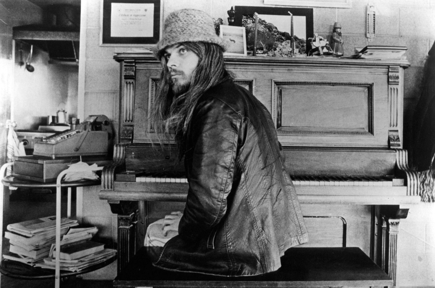 Publicity photo of Leon Russell. The photo was taken at his home, where he had recording facilities.